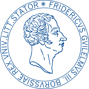 The historic seal of the University of Bonn